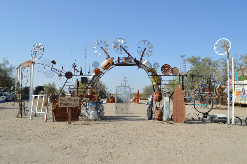 The entry to the sculpture garden at East Jesus by Royce Carlson